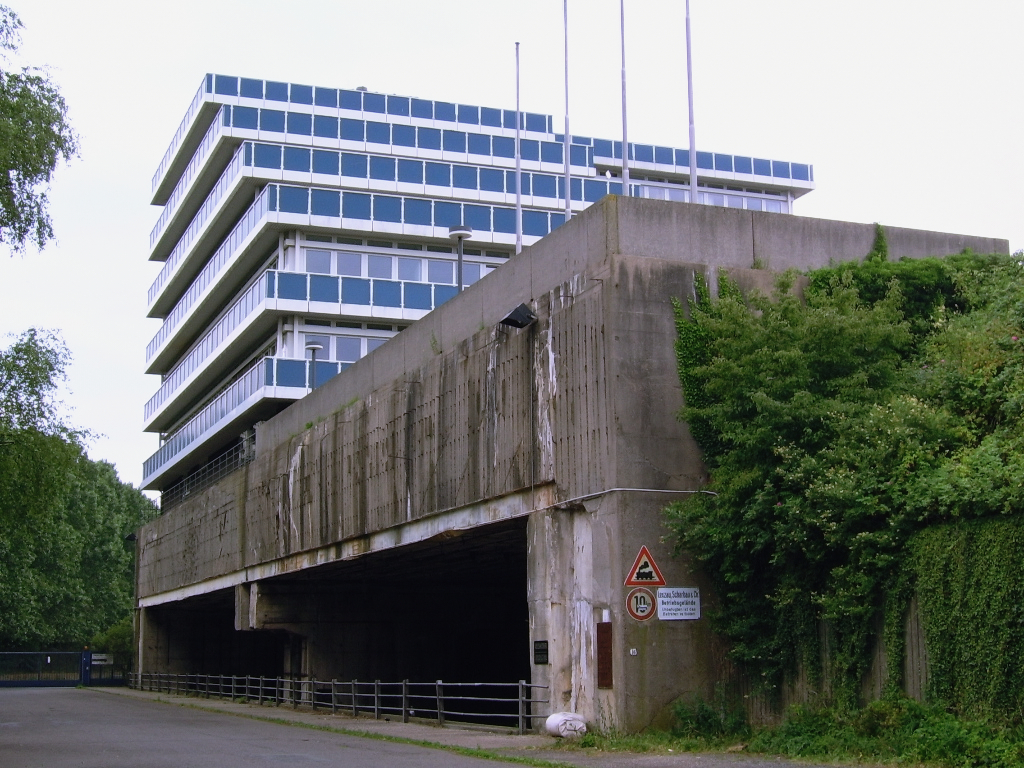 Front of the submarine pen "Hornisse" in Bremen, Germany